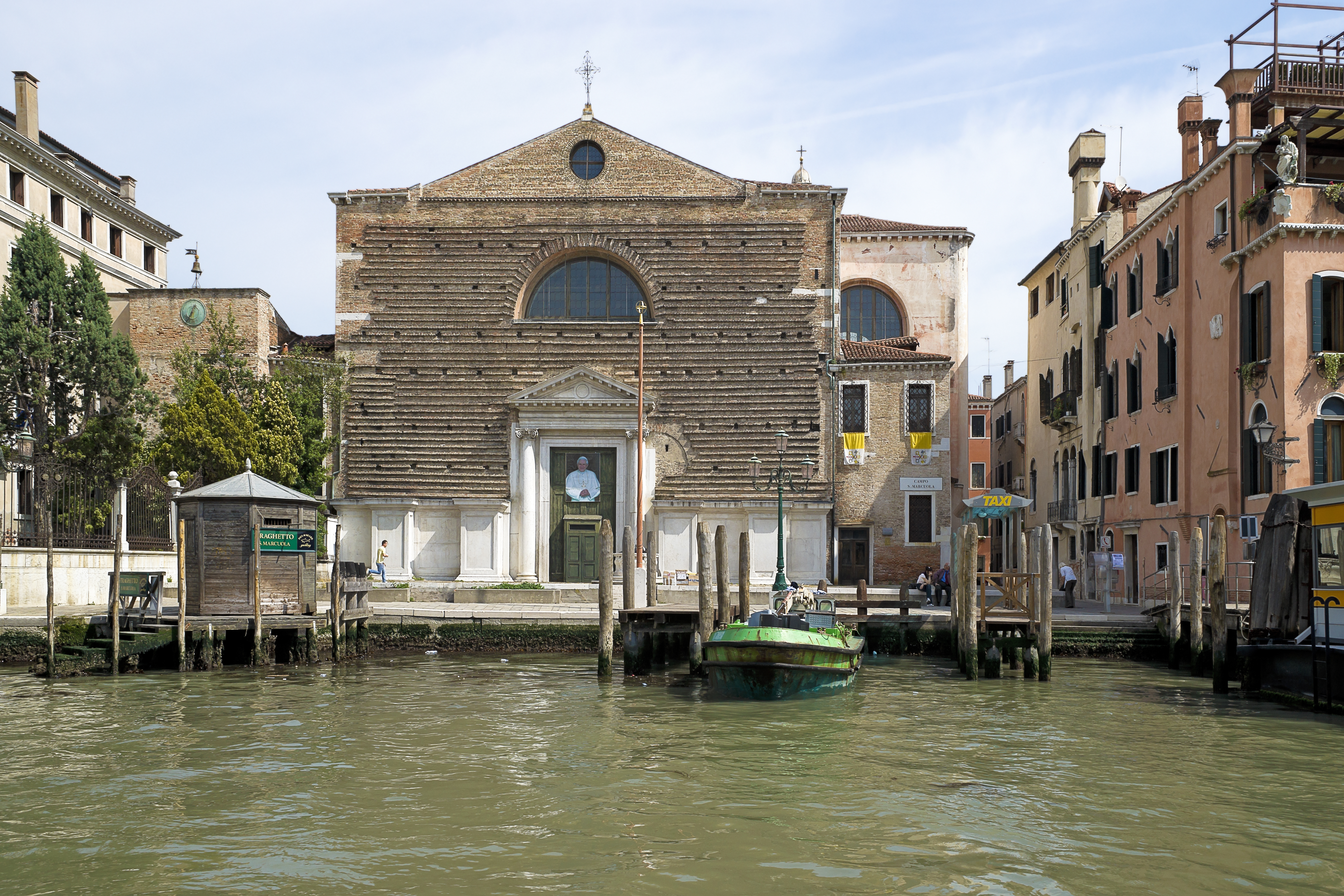 Church San Marcuola and the Campo San Marcuola - Venice.